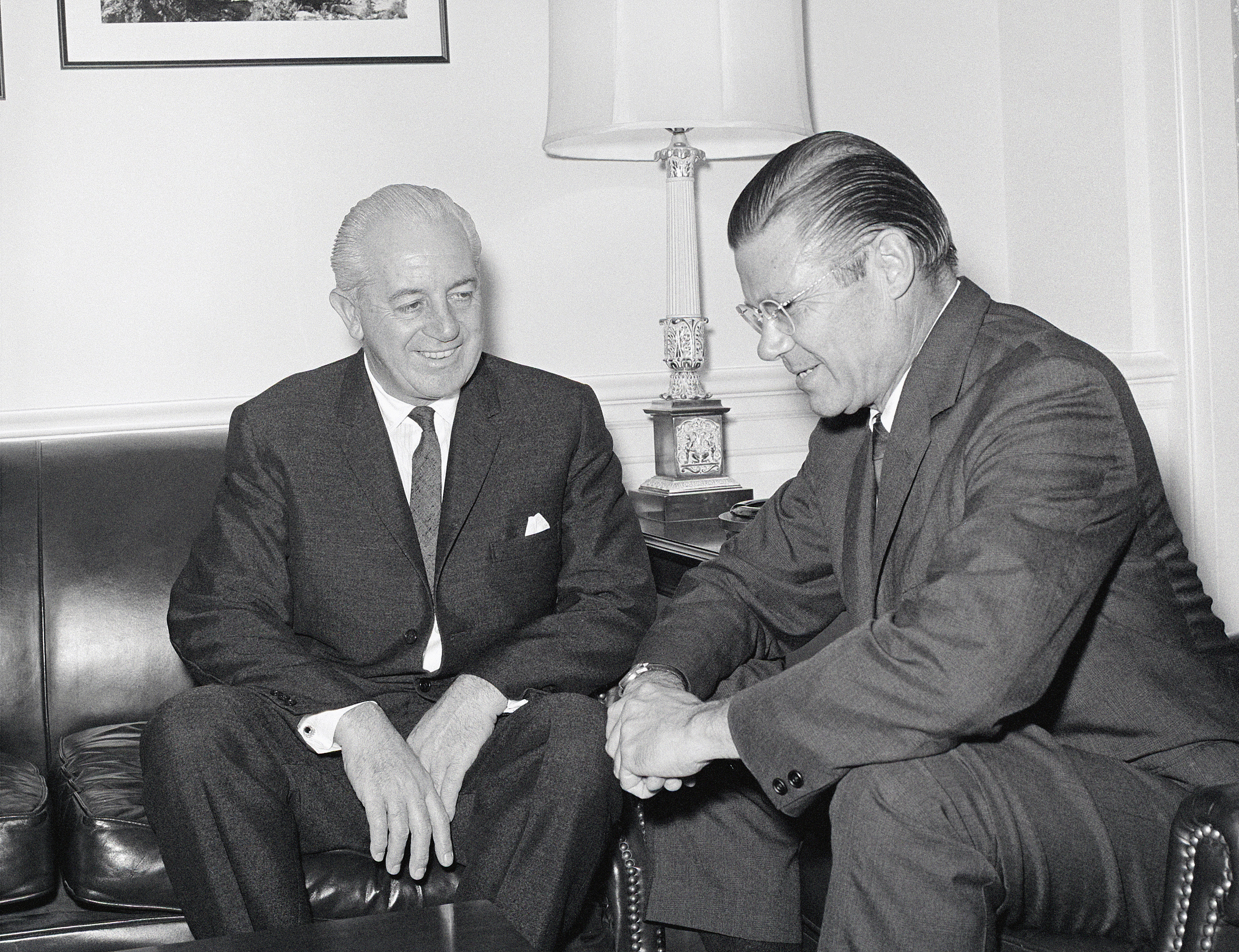 Secretary of Defense Robert McNamara, right, meets at the Pentagon with Harold Holt, prime minister of Australia, in Arlington, Virginia USA.